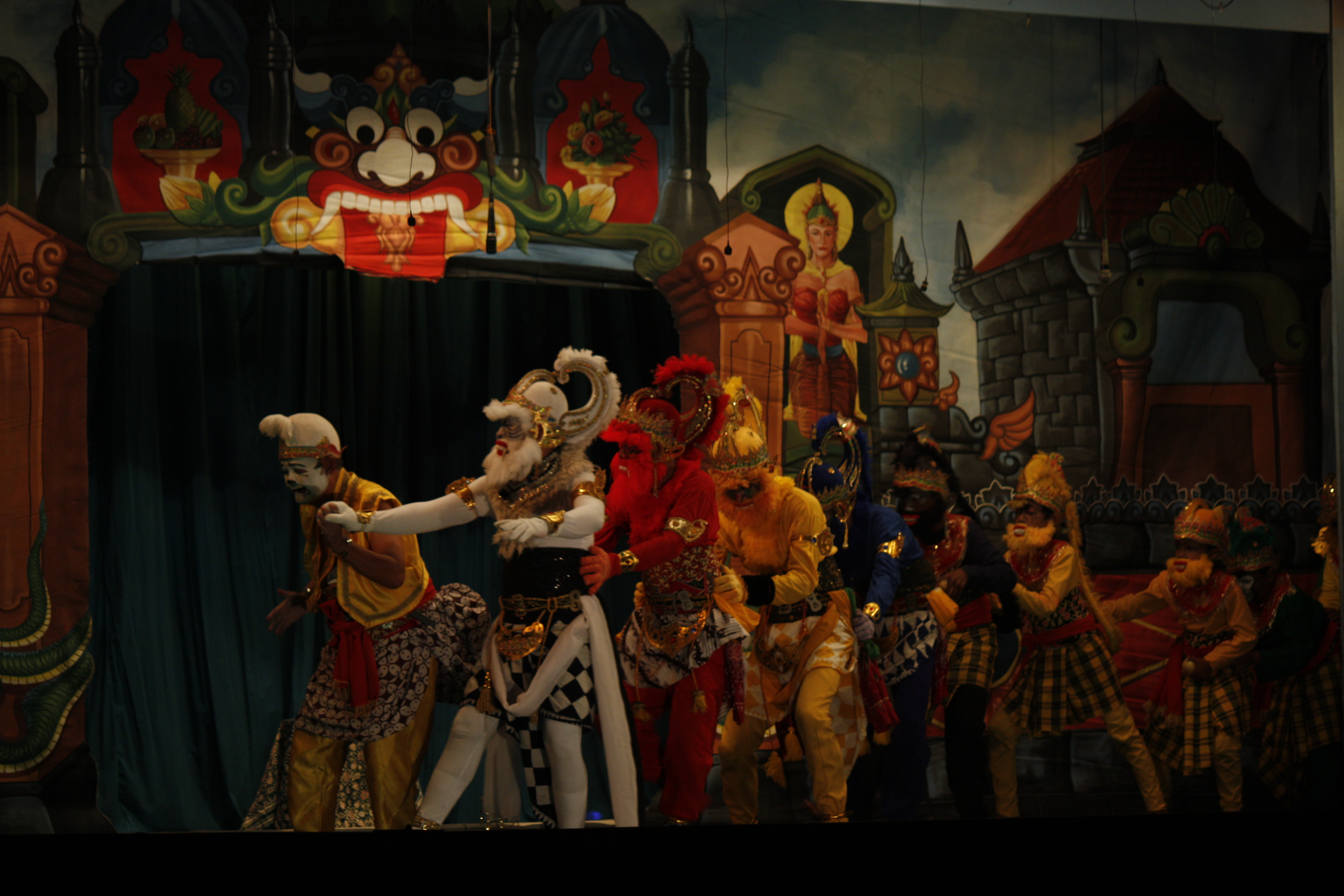 On the play Hanuman Obong, and the army of monkeys helped Anoman semar